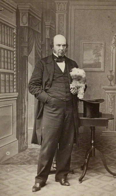 Portrait of William Tyler Smith (1815–1873), English obstetrician.